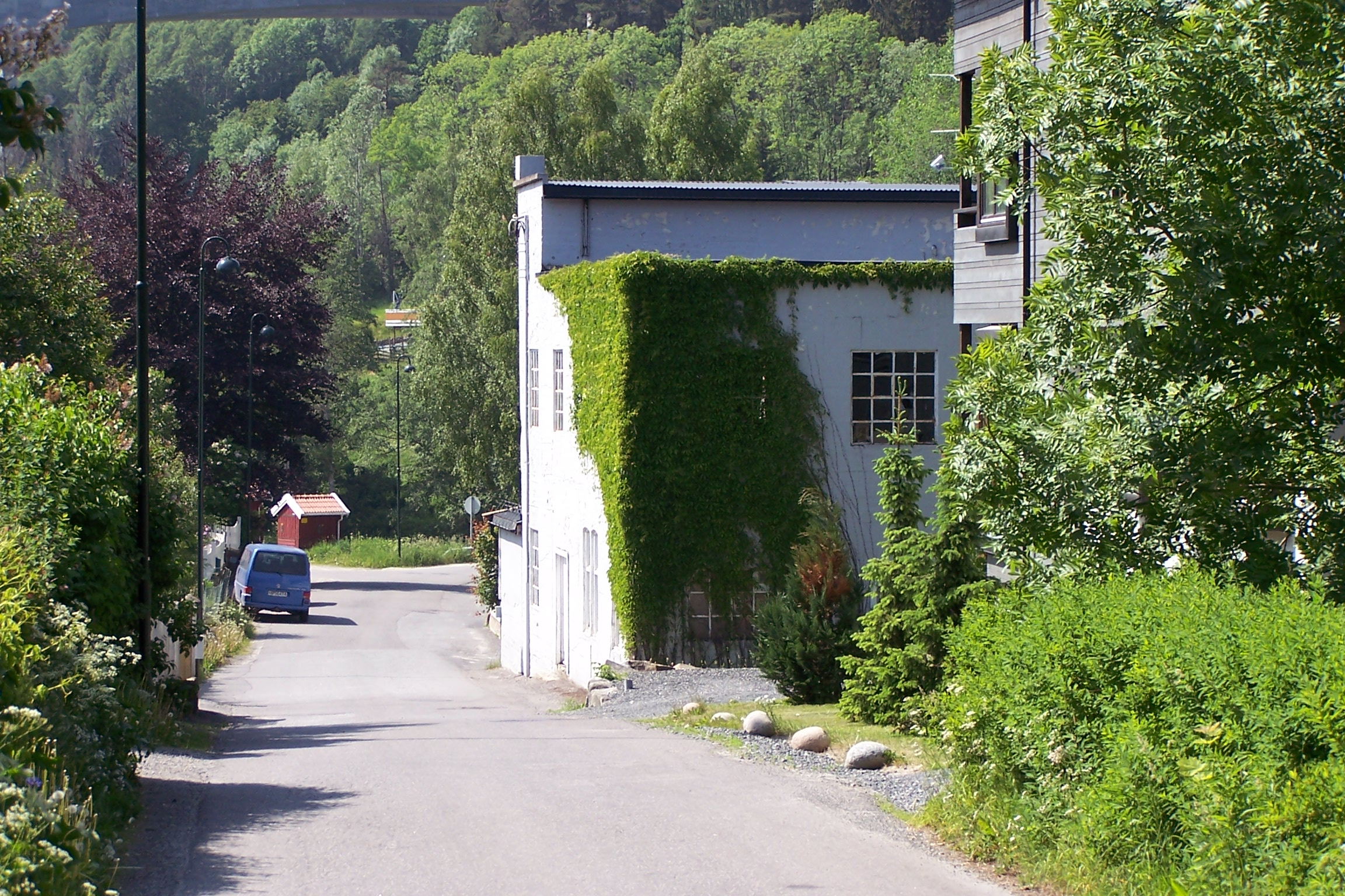 Hølen, "Mølla" ("The Mill")